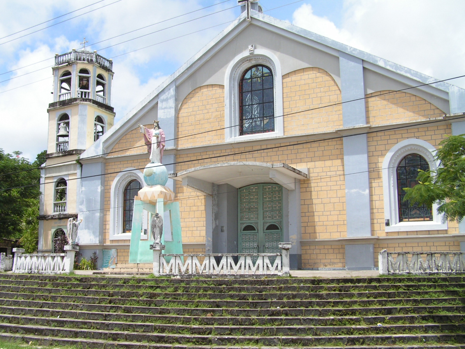 Self-taken Roman Catholic Church, Garcia Hernandez, Bohol